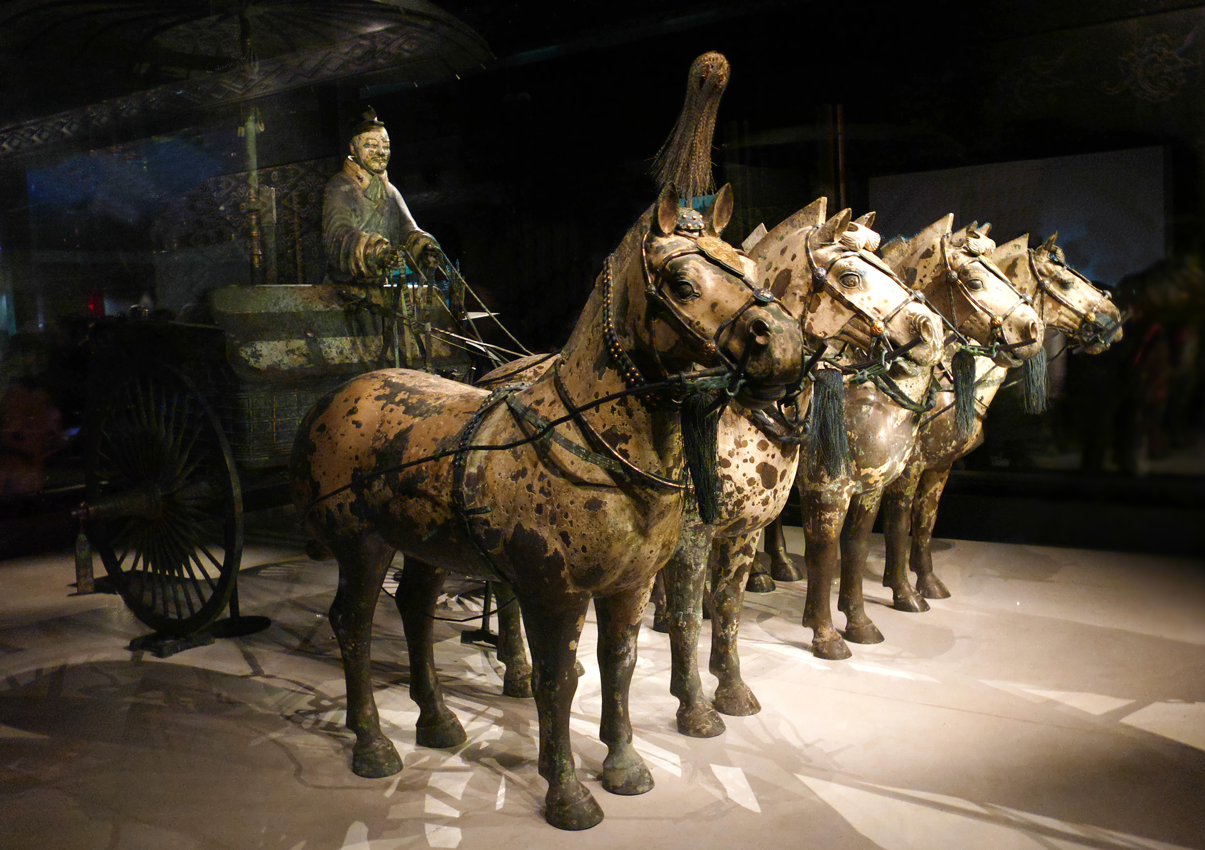 Museum of the grave of Qin Shi Huang